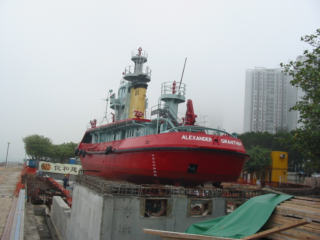 Fireboat Alexander Grantham. Photo taken by Wrightbus in Quarry Bay Park.